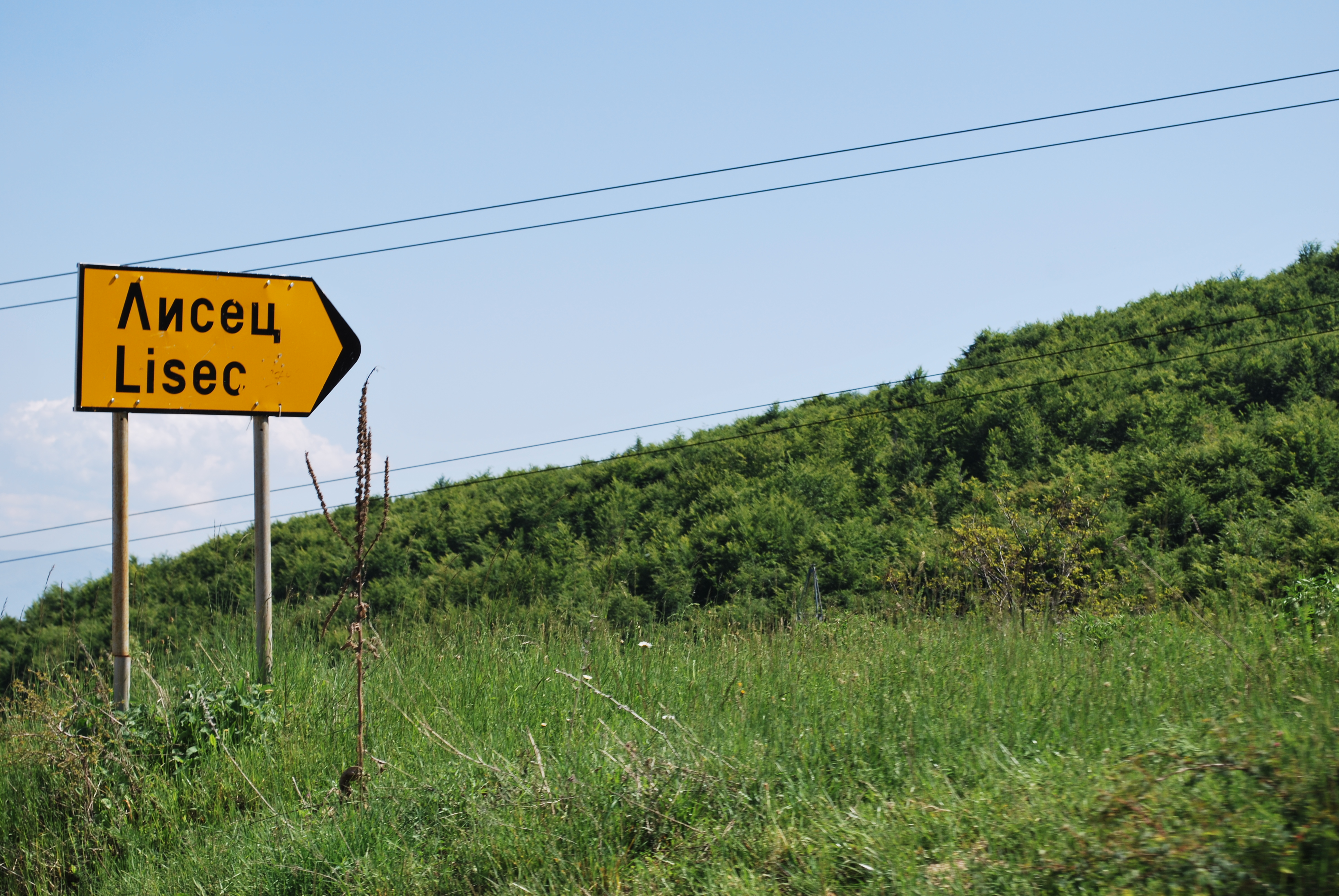 Village of Lisec near Tetovo in Macedonia